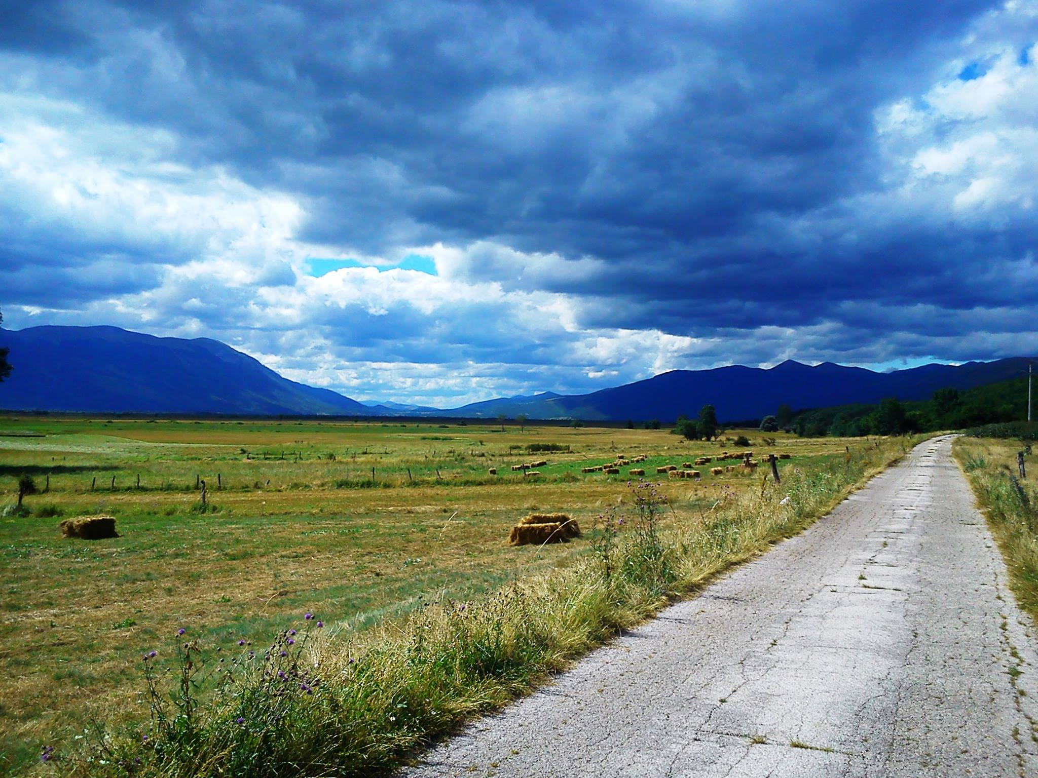 Photo of Livno valley, Bosnia and Herzegovina